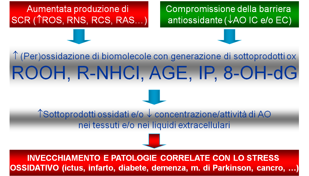 Oxidative Stress assessment